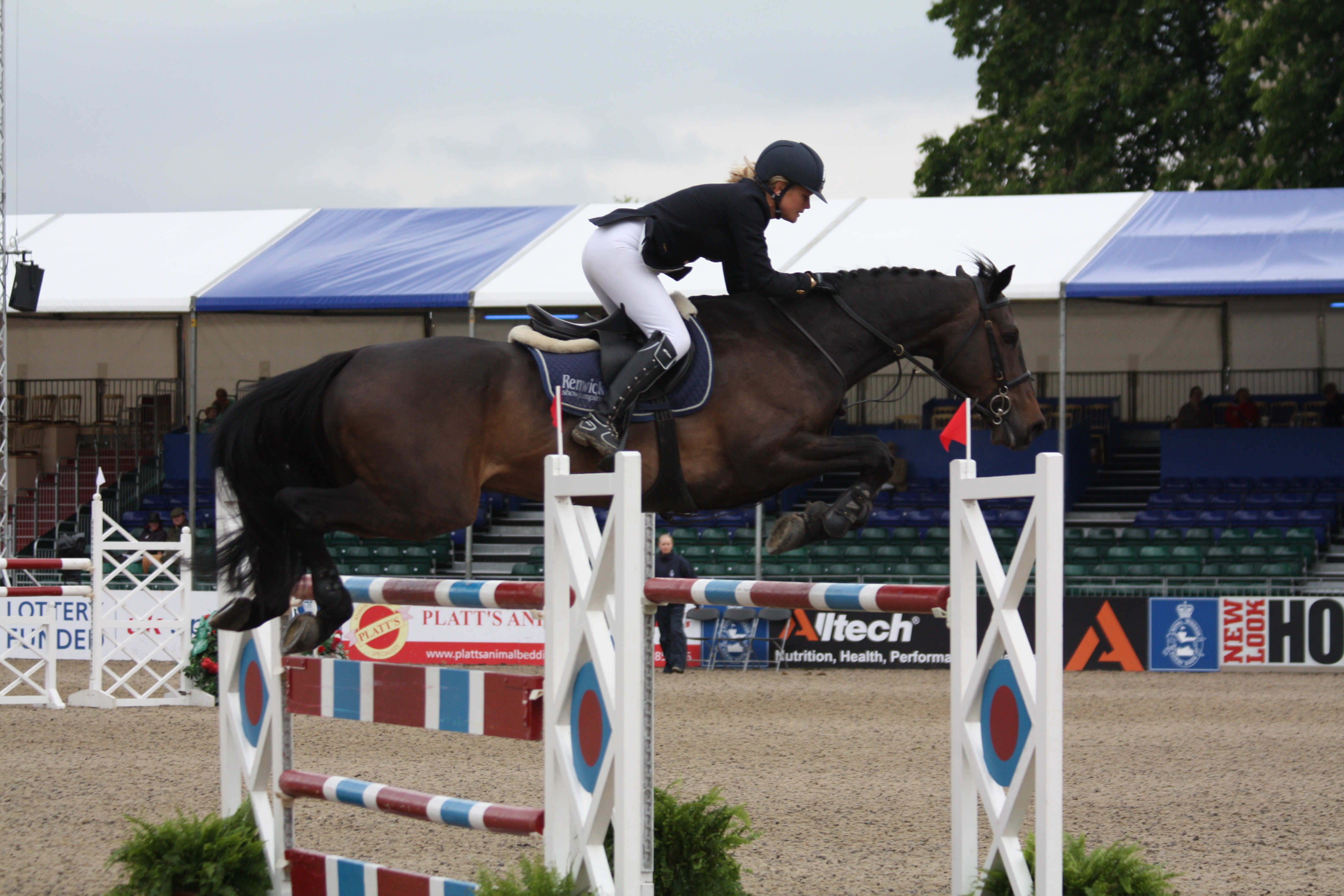 Rollercoaster III ridden by Laura Renwick, Windsor Horse Show 2009